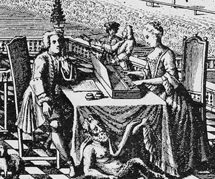 Close-up of title page to the first volume of Singende Müse an der Pleisse, a collection of strophic songs published in Leipzig in 1736, by "Sperontes", Johann Sigismund Scholze. Art historian and Bach portrait expert Teri Noel Towe believes there is a chance that the two people shown may be Bach and his wife Anna Magdalena: archive link